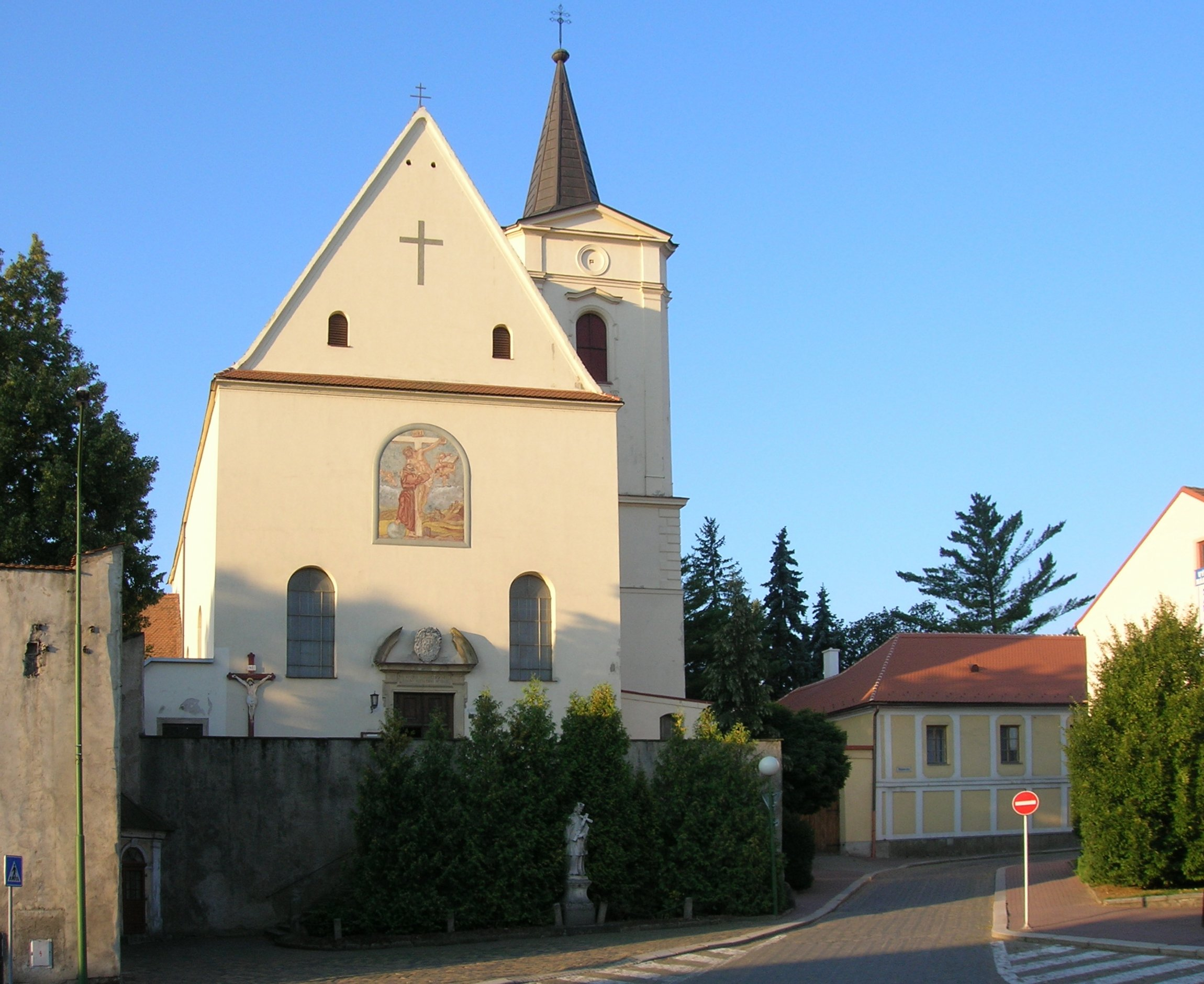 Třebíč-Jejkov. Transfiguration church